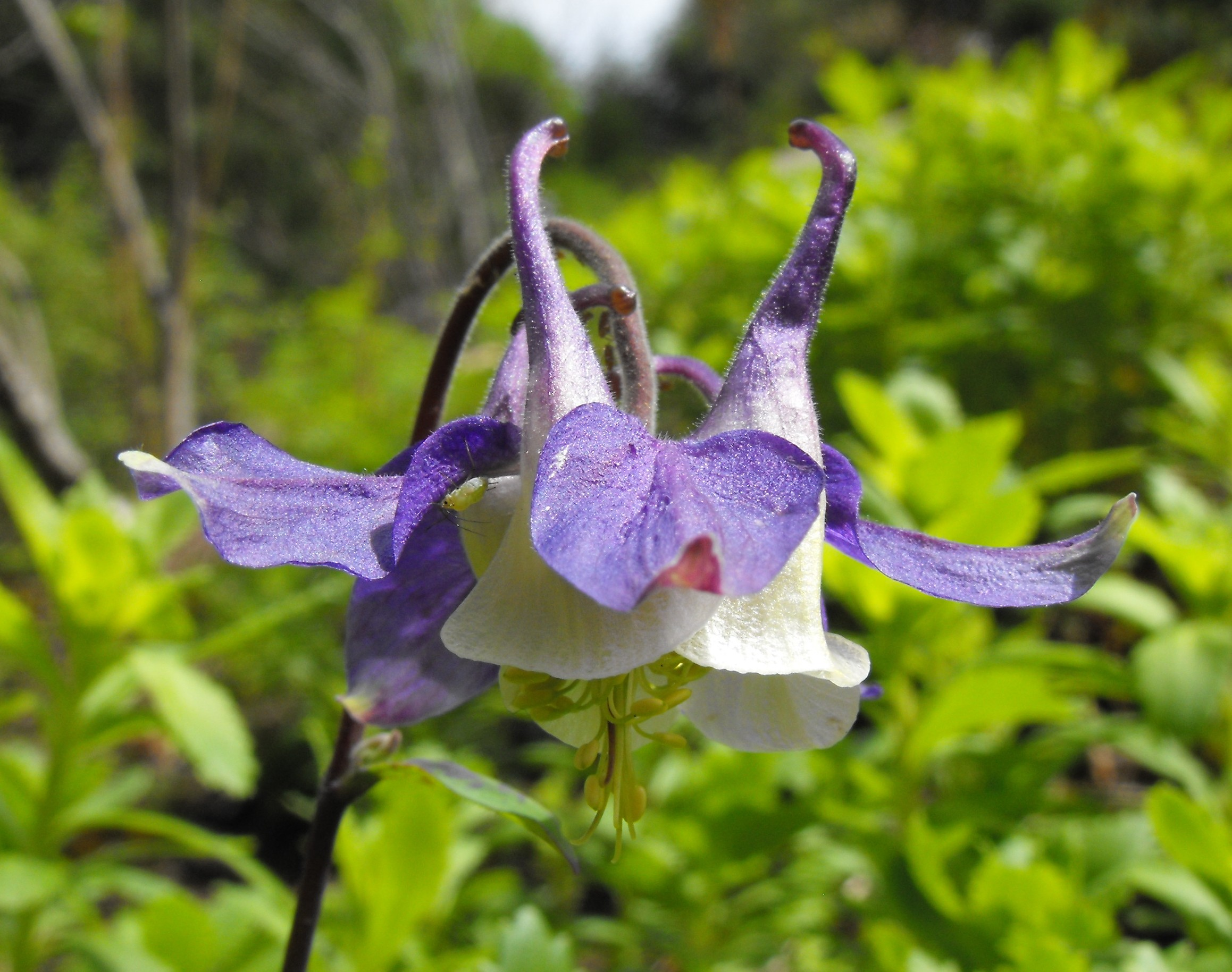 Aquilegia glandulosa at UC Berkeley Botanical Garden, California, USA. Identified by sign.